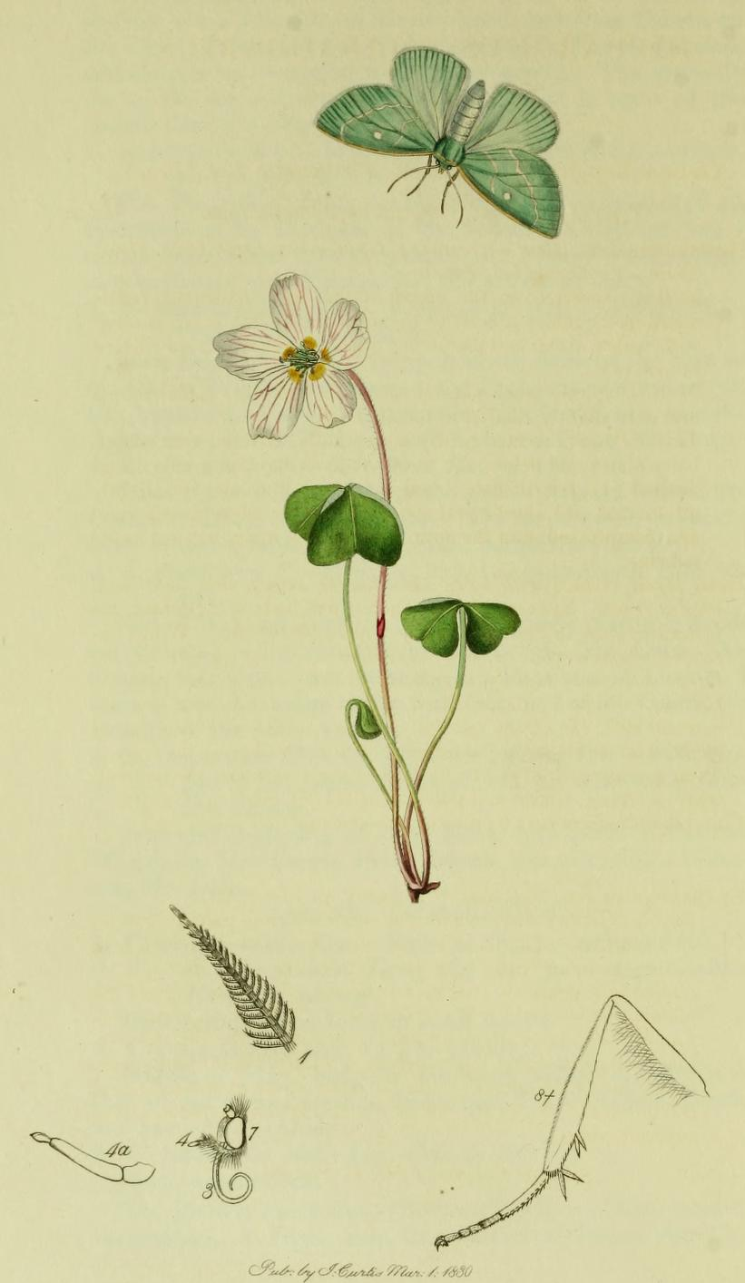 An illustration from British Entomology by John Curtis. Lepidoptera: Hipparchus smaragdarius or Thetidia smaragdaria (Essex Emerald Moth).